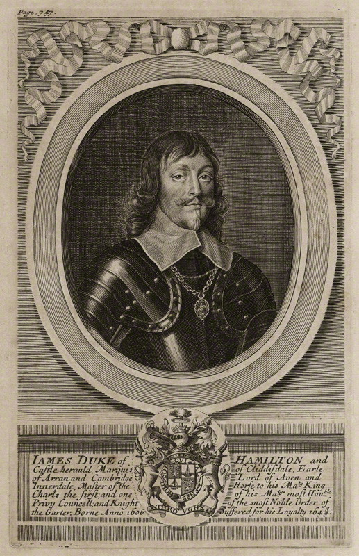 Portrait of James Hamilton, 1st Duke of Hamilton